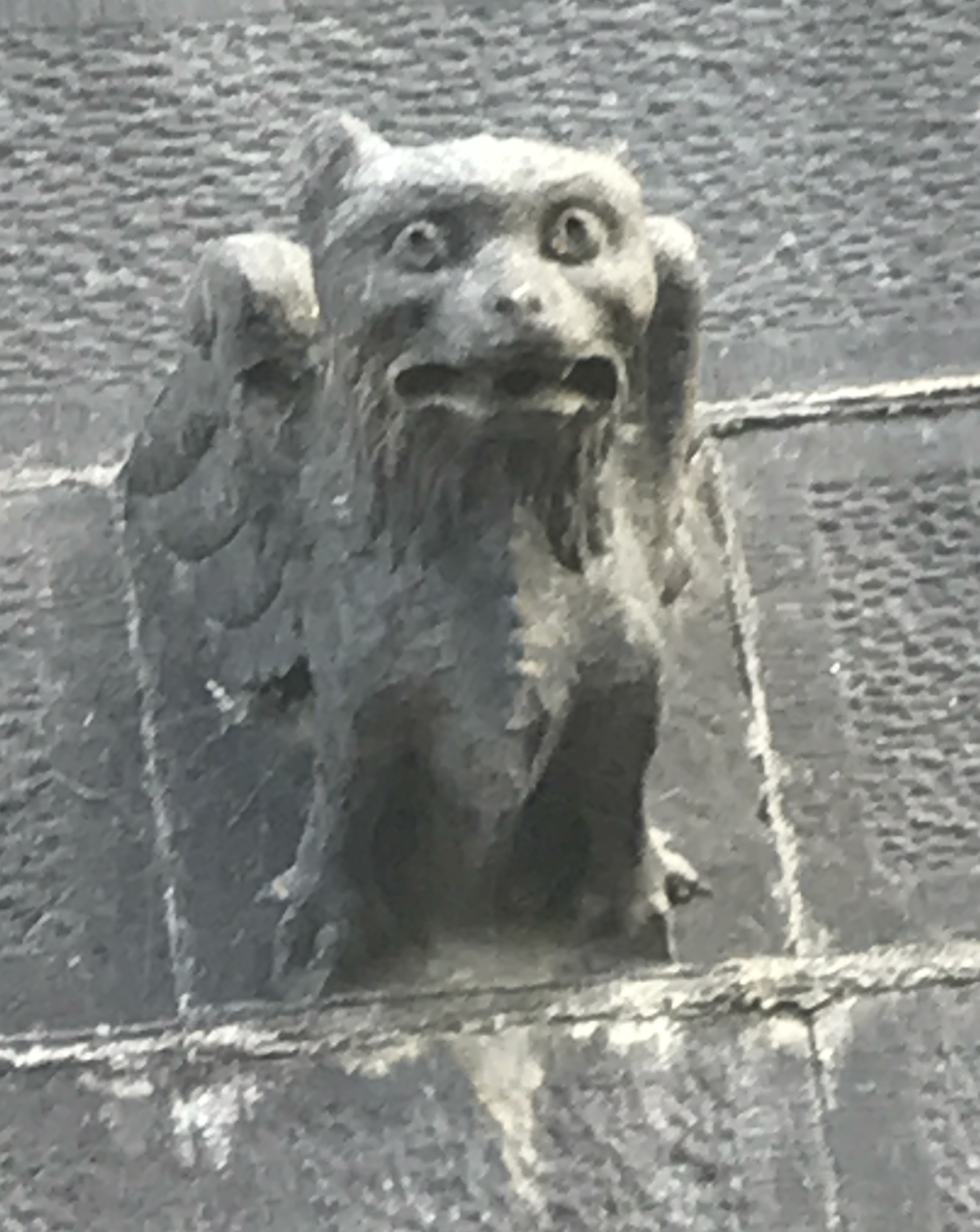 Saint Fin Barre's Cathedral, Cork